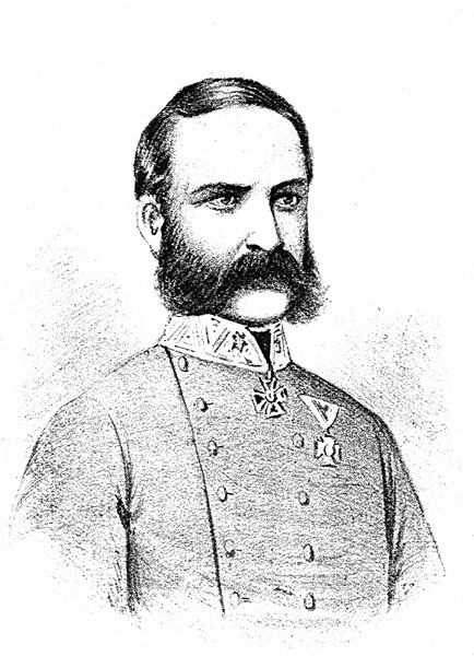 Đorđe Stratimirović (1822 - 1908), military commander of Serbian Vojvodina in 1848.